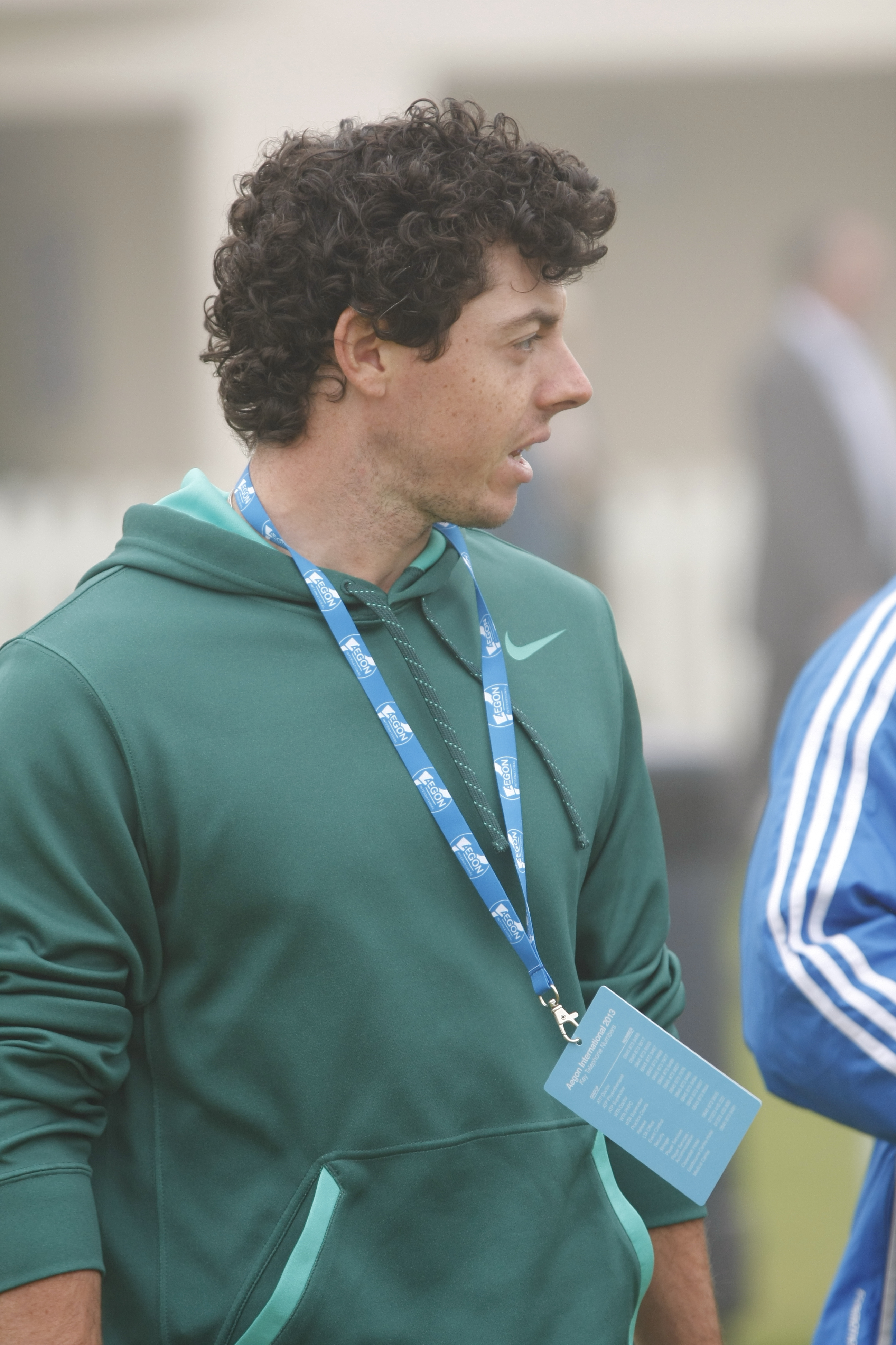 Aegon International Tennis Eastbourne June 2013